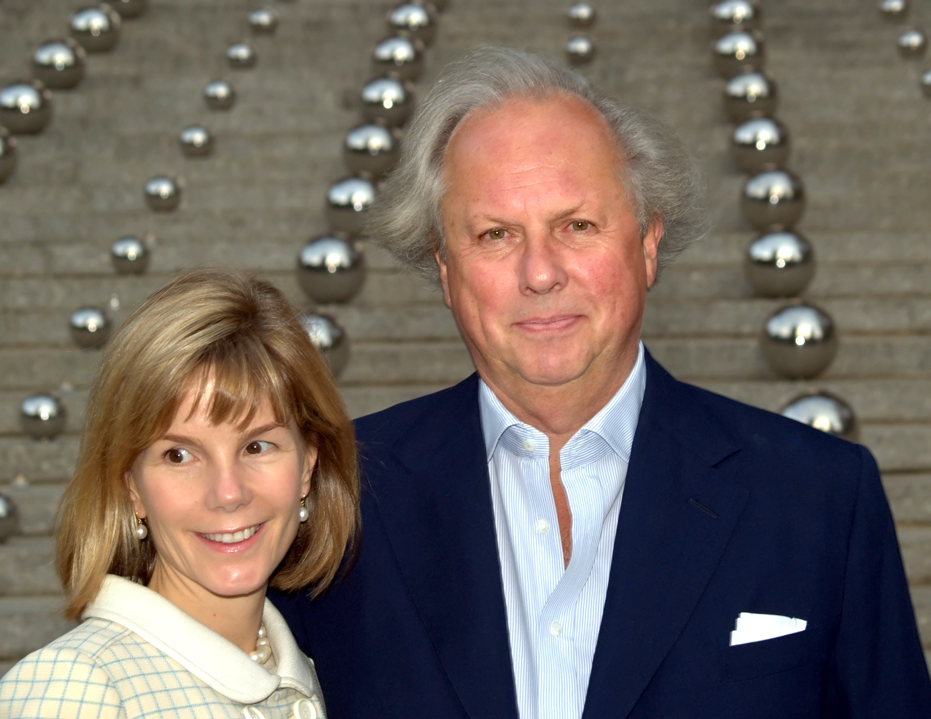 Graydon Carter and his wife Anna Scott at the Vanity Fair party to celebrate the 2010 Tribeca Film Festival.